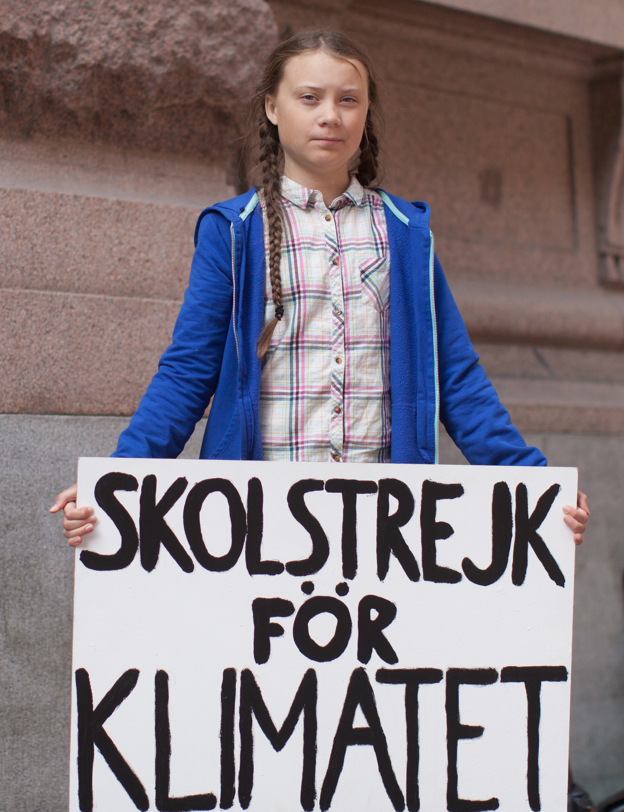 In August 2018, outside the Swedish parliament building, Greta Thunberg started a school strike for the climate. Her sign reads, “Skolstrejk för klimatet,” meaning, “school strike for climate”.